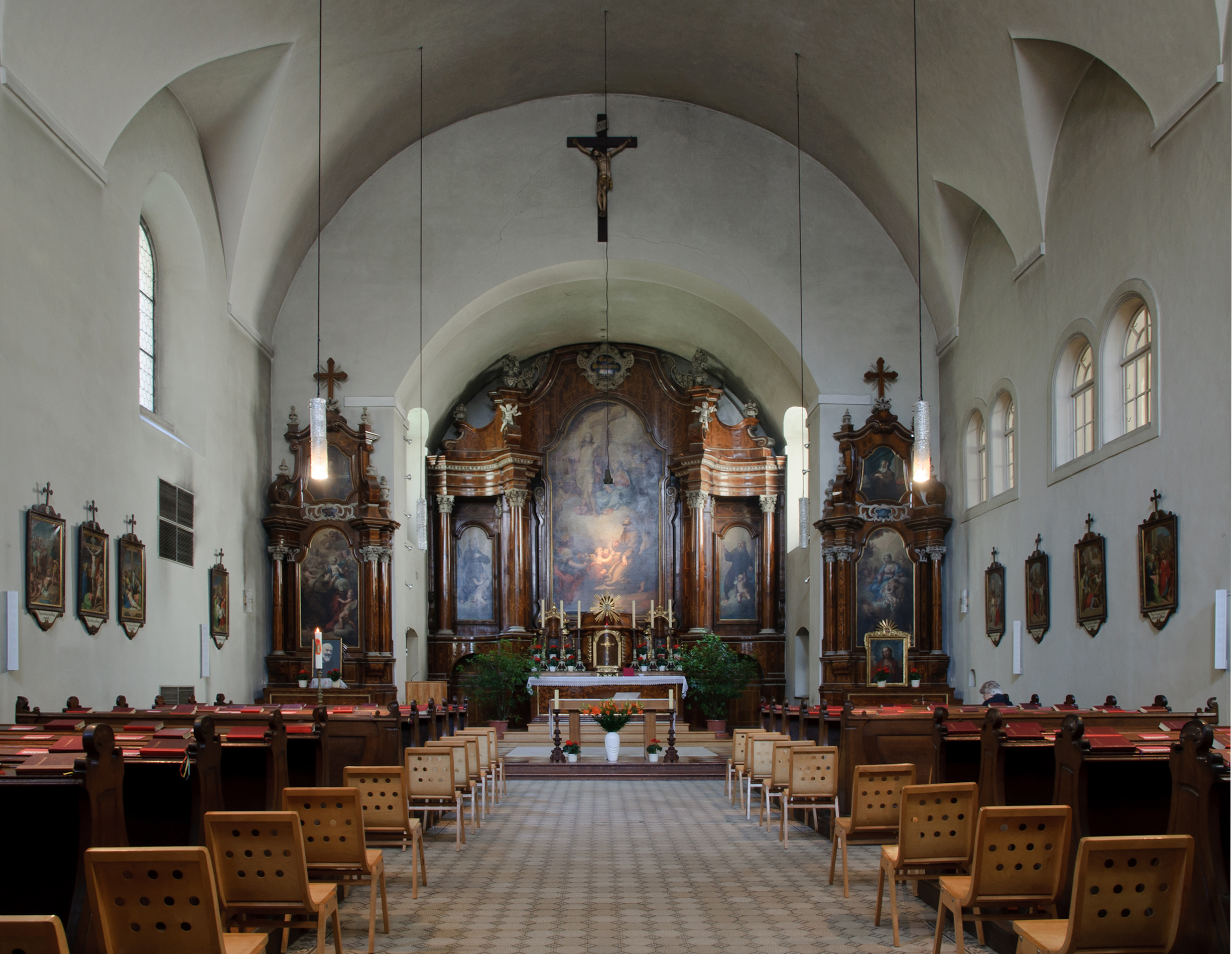 Interior view of the Capuchin Church in Vienna, Austria.